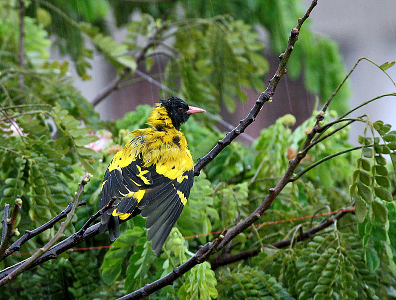 Black-hooded Oriole Oriolus xanthornus in Kolkata, West Bengal, India.